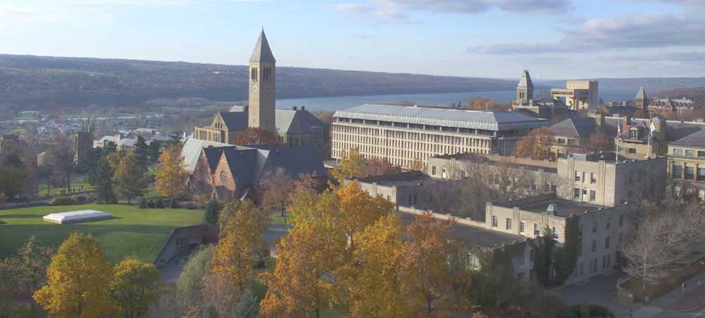 View of Cornell Central Campus.